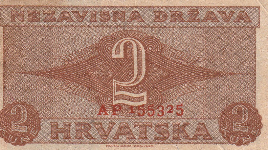 2 kune 25 rujna 1942